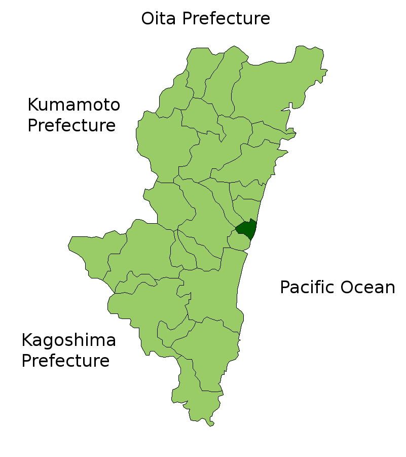 Location Map of Takanabe in Miyazaki Prefecture, Japan